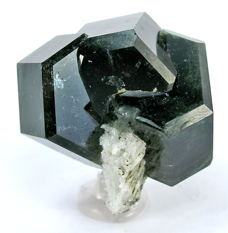 Apatite Locality: Conselheiro Pena, Doce valley, Minas Gerais, Southeast Region, Brazil (Locality at ) Size: miniature, 3.2 x 3.1 x 2.8 cm Apatite A complete-all-around, pristine, incredible geometric cluster of SHARP apatites perched upon a slender stalk of albite matrix. This is a recent find, and an exceptionally good specimen from it. The lustre is incredible, like glass...and in person the apatites have a dark, subtle green coloration hard to photograph. Another miiature that is so stellar, it simply looks carved and is top competition-level. This style was Helmut's core colleting taste.